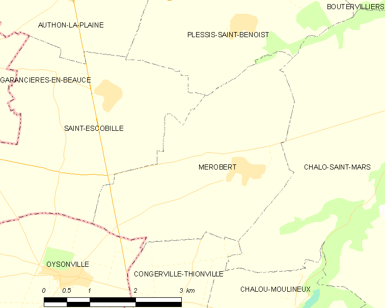 Map of French municipality Mérobert